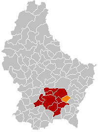 Own edit of Kanton LuxemburgLocatie.png